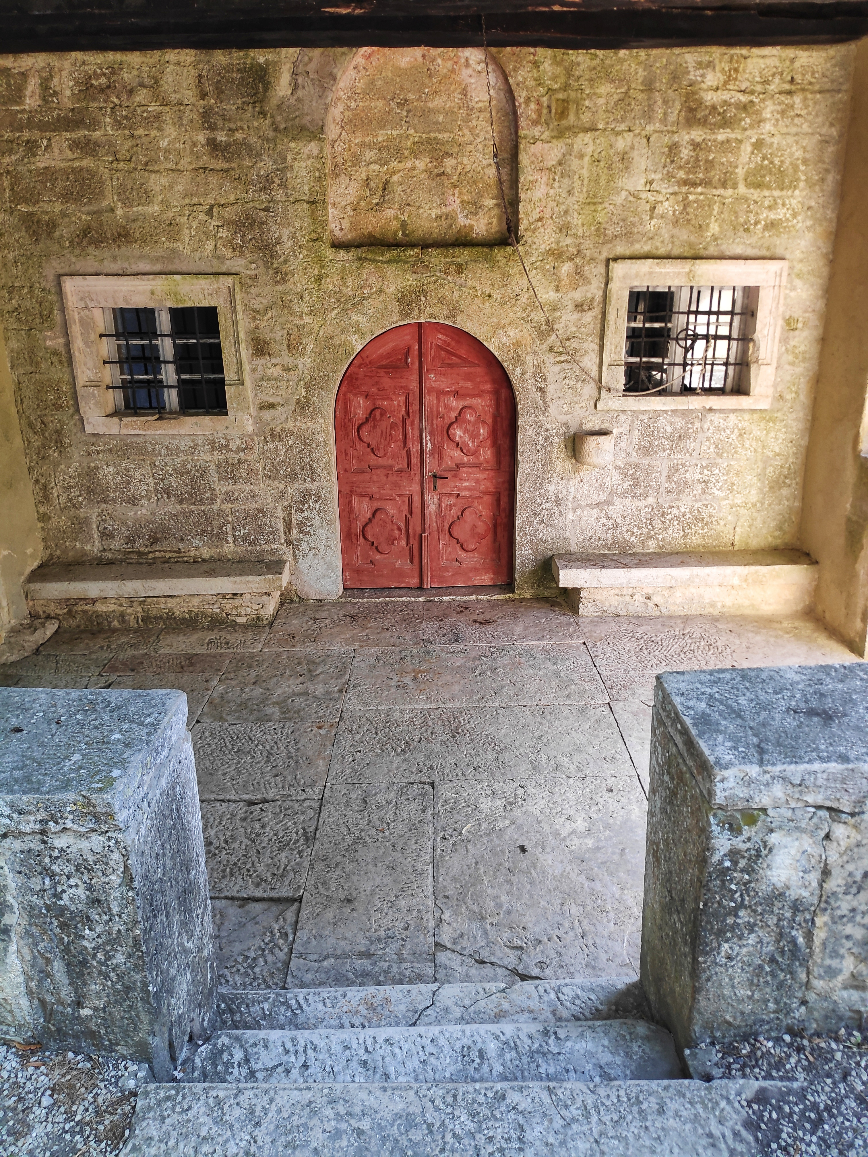 Sveta Marija na Škriljinah porta